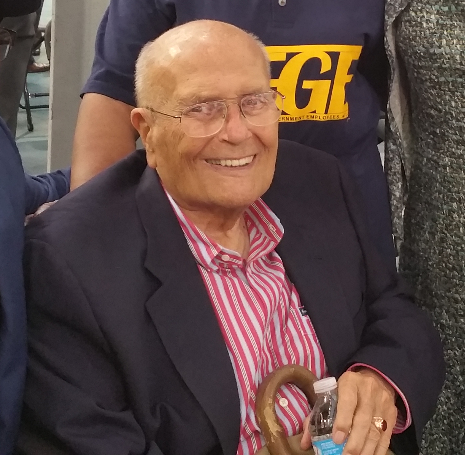 AFGE leaders attend Clinton/Kaine rally in Detroit. IMPORTANT: This information should not be downloaded using government equipment, read during duty time, sent to others using government equipment, or sent to anyone while in a government building because it involves election related activity.